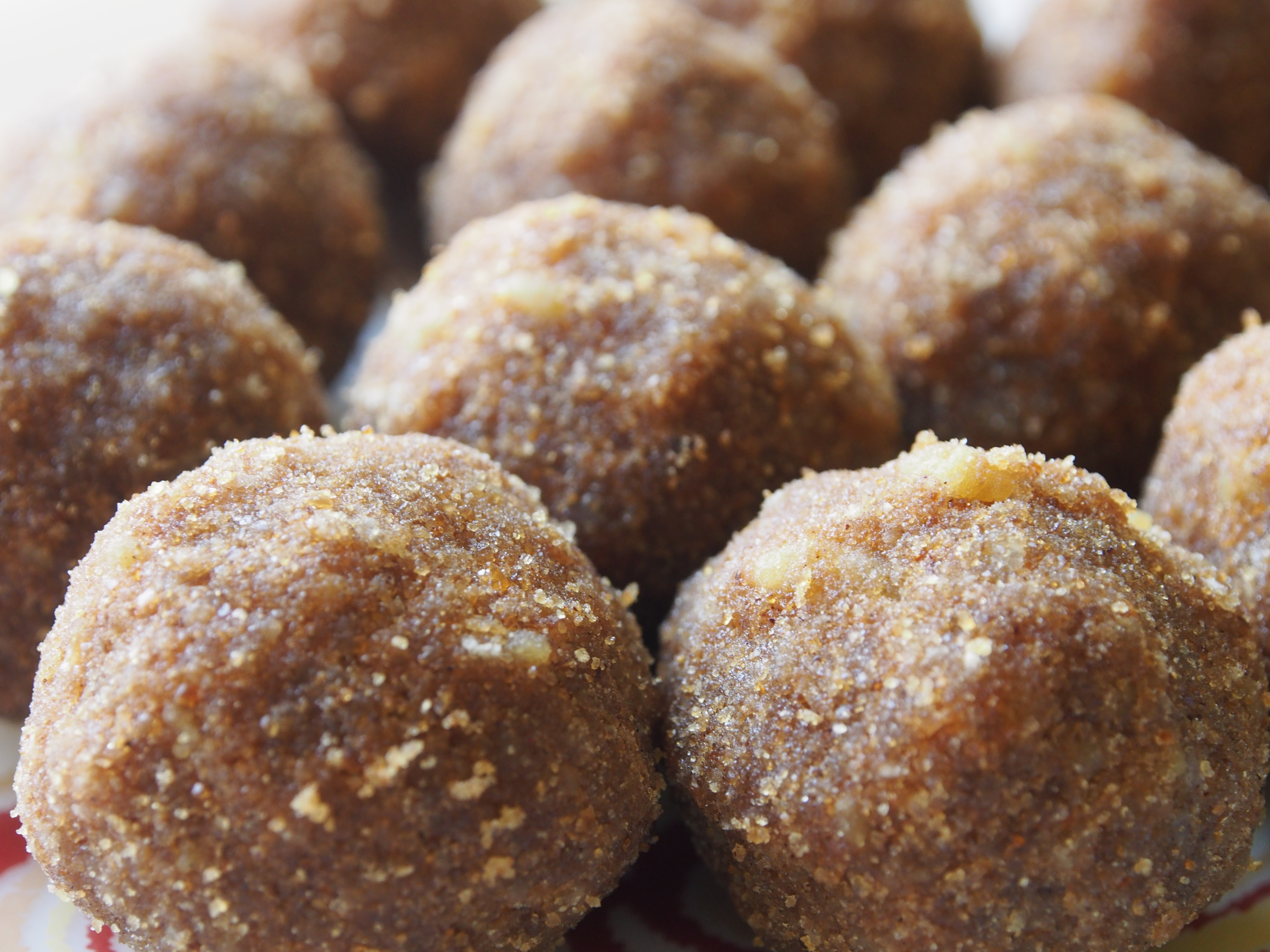 Ariyunda, a snack made from Rice